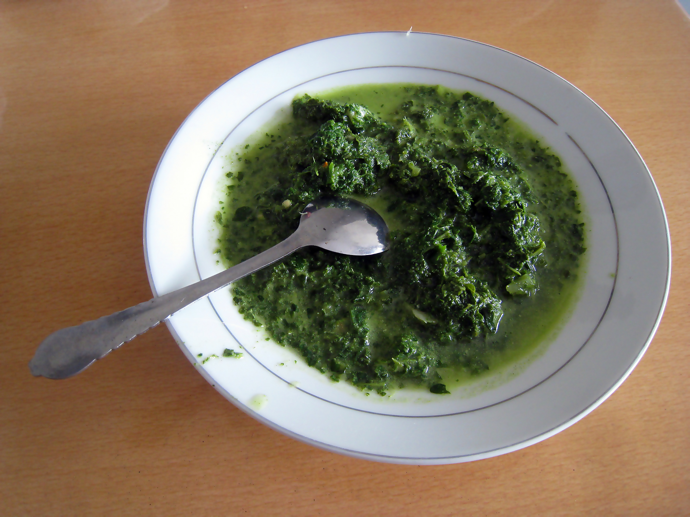 Sayur daun ubi tumbuk, pounded cassava or yam leaf vegetable dish. Batak cuisine of North Sumatra, Indonesia.